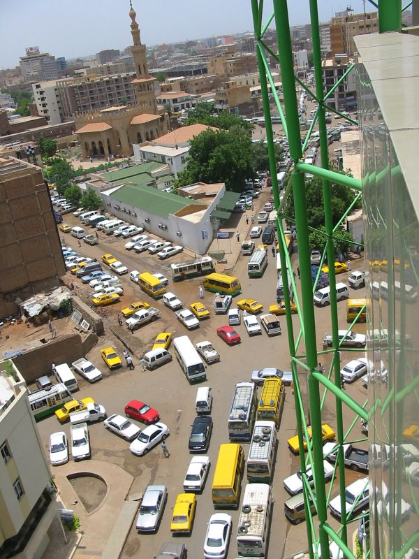 View of the traffic in the city Khartoum in Sudan in 2003